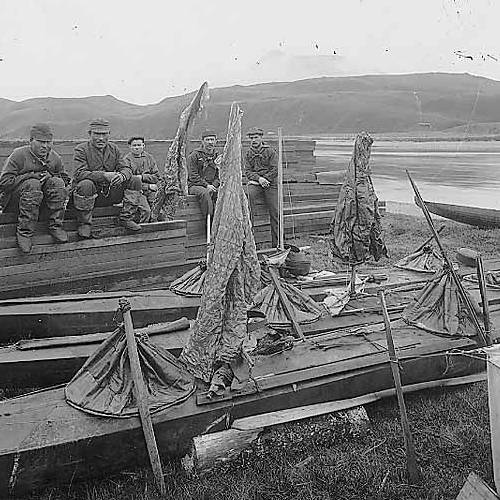 Sea otter hunters and kayaks showing waterproof garments and kayak covers, Unalaska, 1896